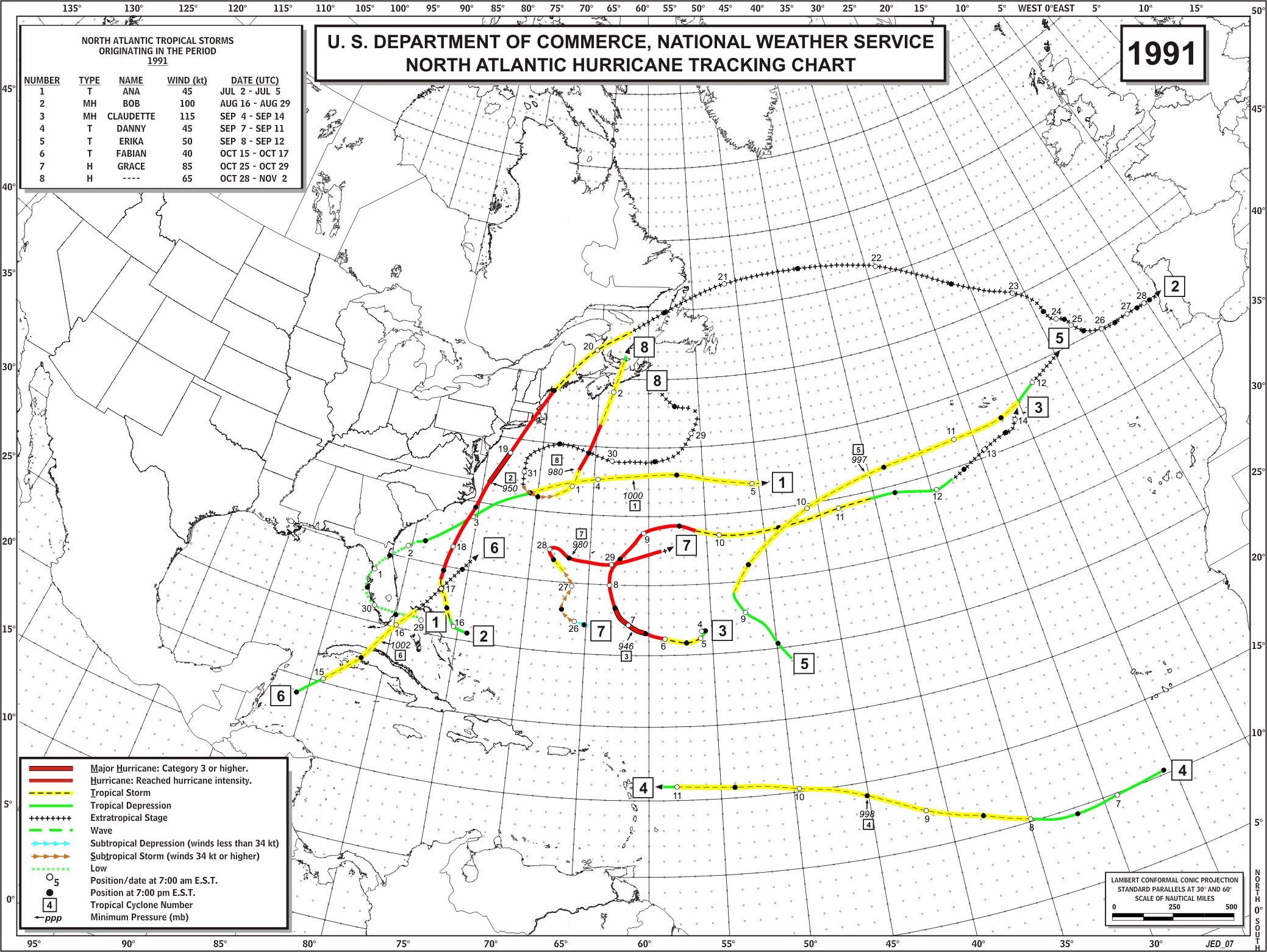 Season summary provided by NOAA of the 1991 Atlantic hurricane season.